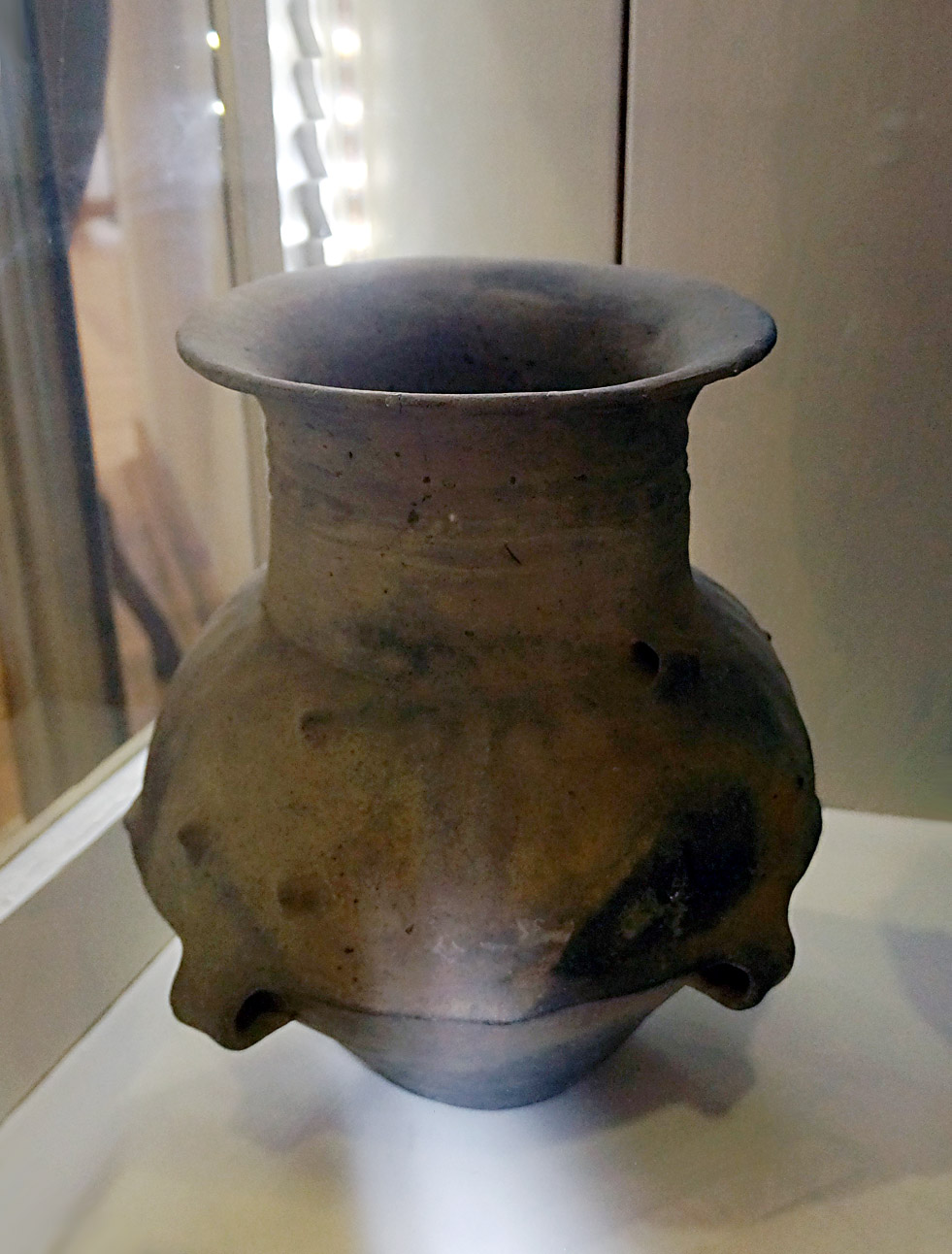 Vršac museum artefacts: a Vatin culture (Bronze Age) digged out dish, a jar.